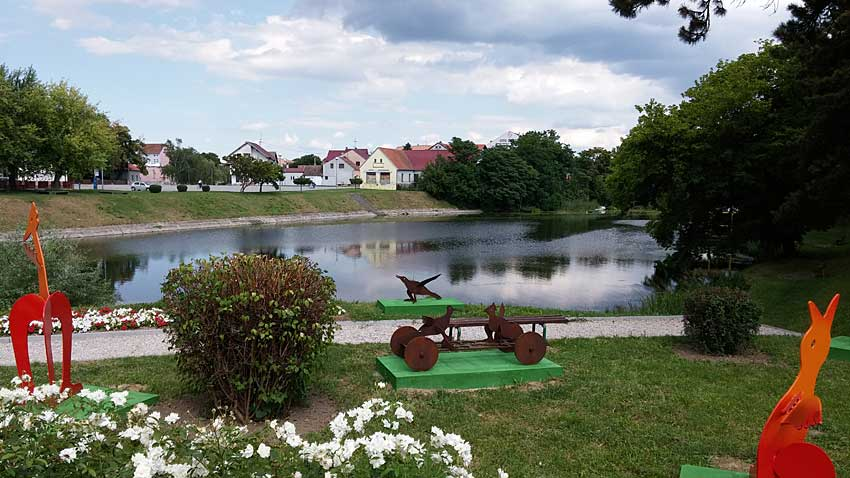 the Gross Memorial Sculpture Park on the Bosut riverside, Vinkovci, Croatia